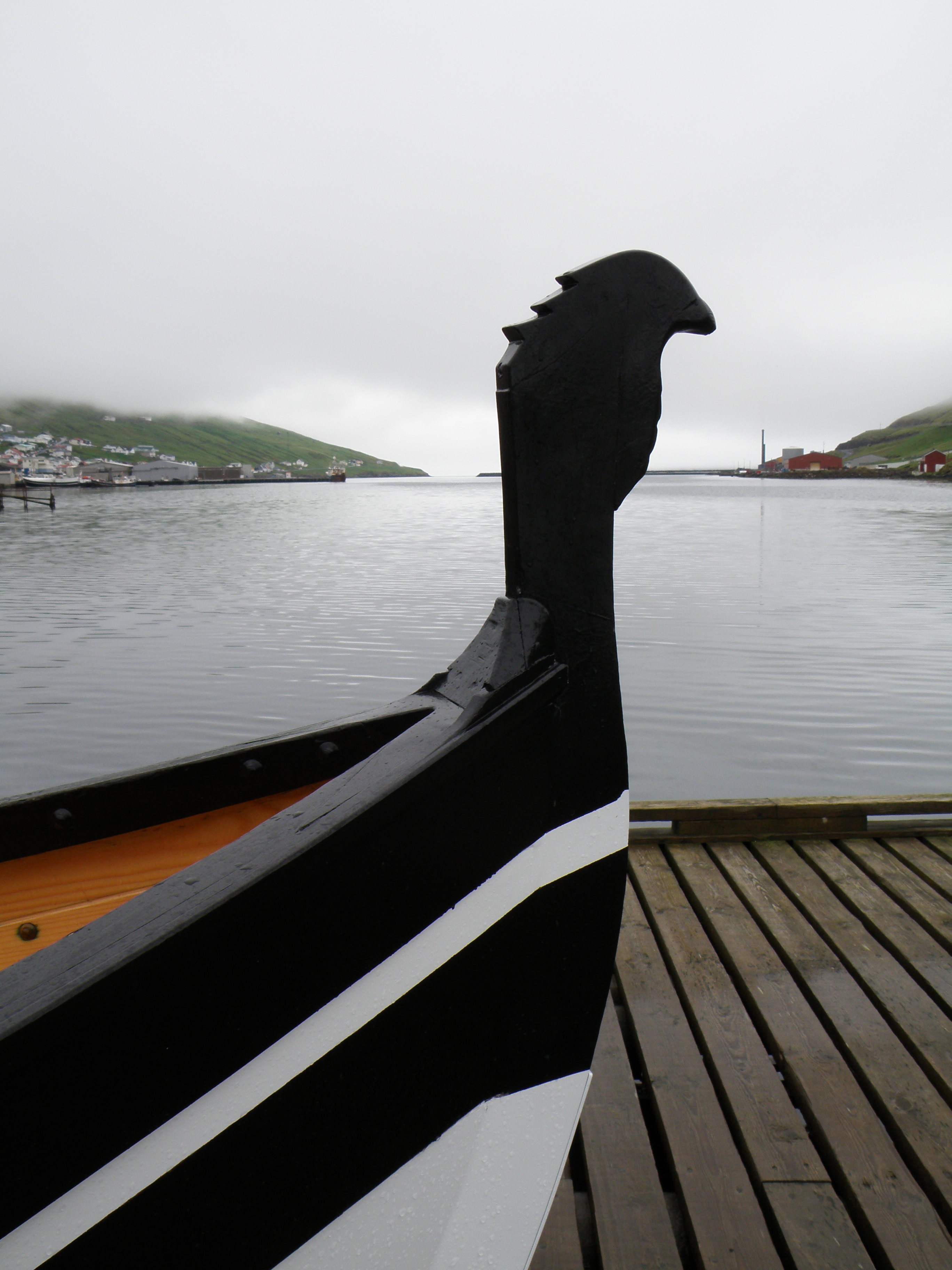 This is the stem of the boat Smyril, which is a wooden rowboat from Vágur, Suðuroy, Faroe Islands. Sámal Hansen, boat builder built it in 2003. It has the same name as the ferry, which sails on the route Suðuroy - Tórshavn. Smyril is the Faroese word for the bird Merlin. This is a so-called 6-mannafar. 6 people are rowing the boat and one is steering to rowing competitions, just like the 5-mannafør. In 8-mannafør 8 people are rowing and in 10-mannafør 10 people are rowing. The competitions are split into boys and girl, men and women. The larger boats, the 8 and 10-mannafør is only for men. Children are also rowing in the 5-mannafør boats. Føroyskt: Stevni á Smyrli. Smyril er bátur hjá Vágs Kappróðrarfelag. Smyril er eitt 6-mannafar. Báturin varð bygdur í 2003, tað var Sámal Hansen, bátabyggjari, sum smíðaði hann. Vágsfjørður sæst aftanfyri.